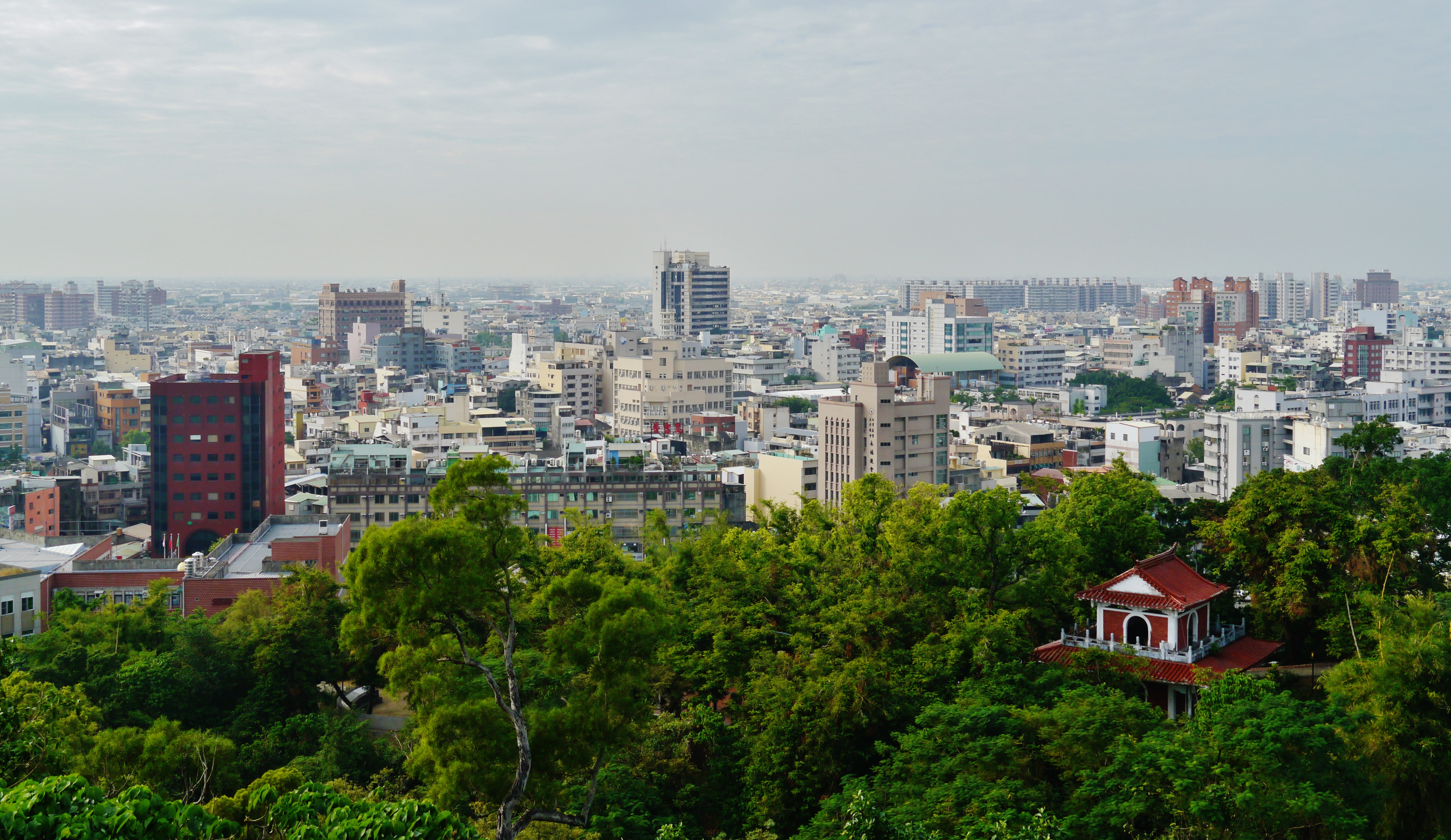 View from Mount Baguashan to Changhua, Changhua County, Taiwan